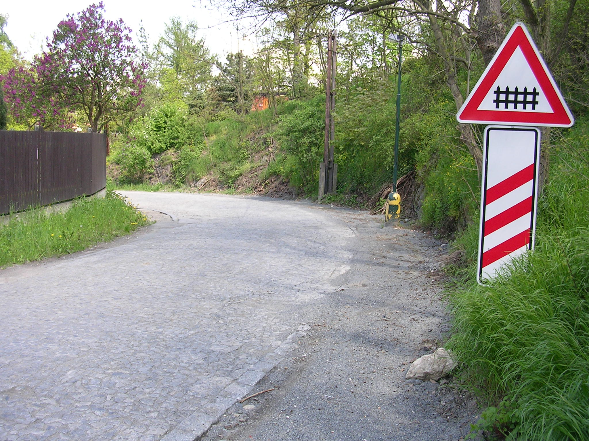 Davle, the Czech Republic.